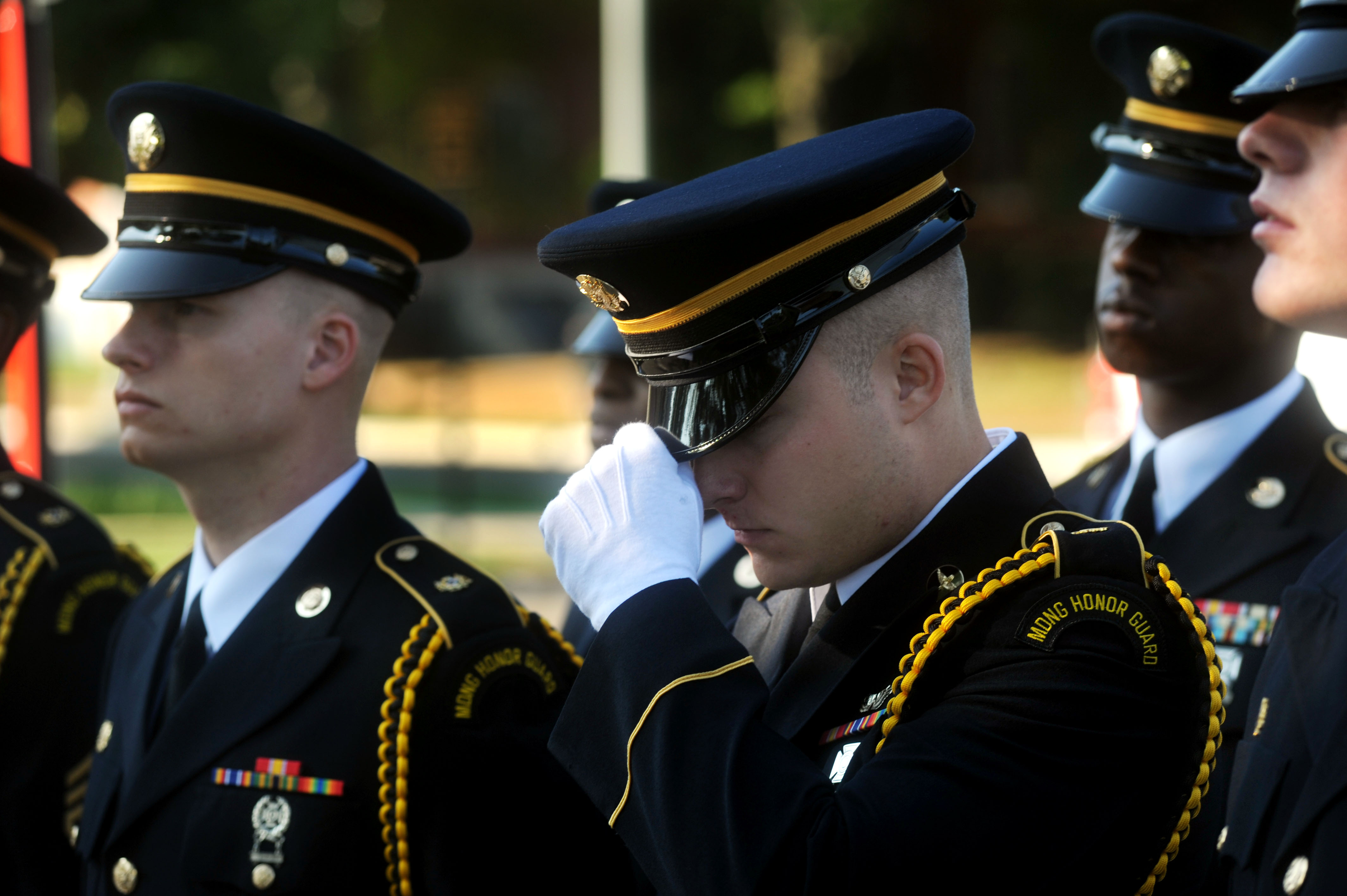 A member of the Maryland Army National Guard Honor Guard team adjusts his cover prior to competing in the military funeral honours event during the 2009 Army National Guard Honor Guard Competition at Fort Myer, Va., Monday, Sept.14, 2009.